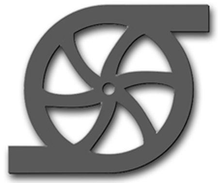 US Navy Gas Turbine System Technician (GS). A turbine with an impeller.